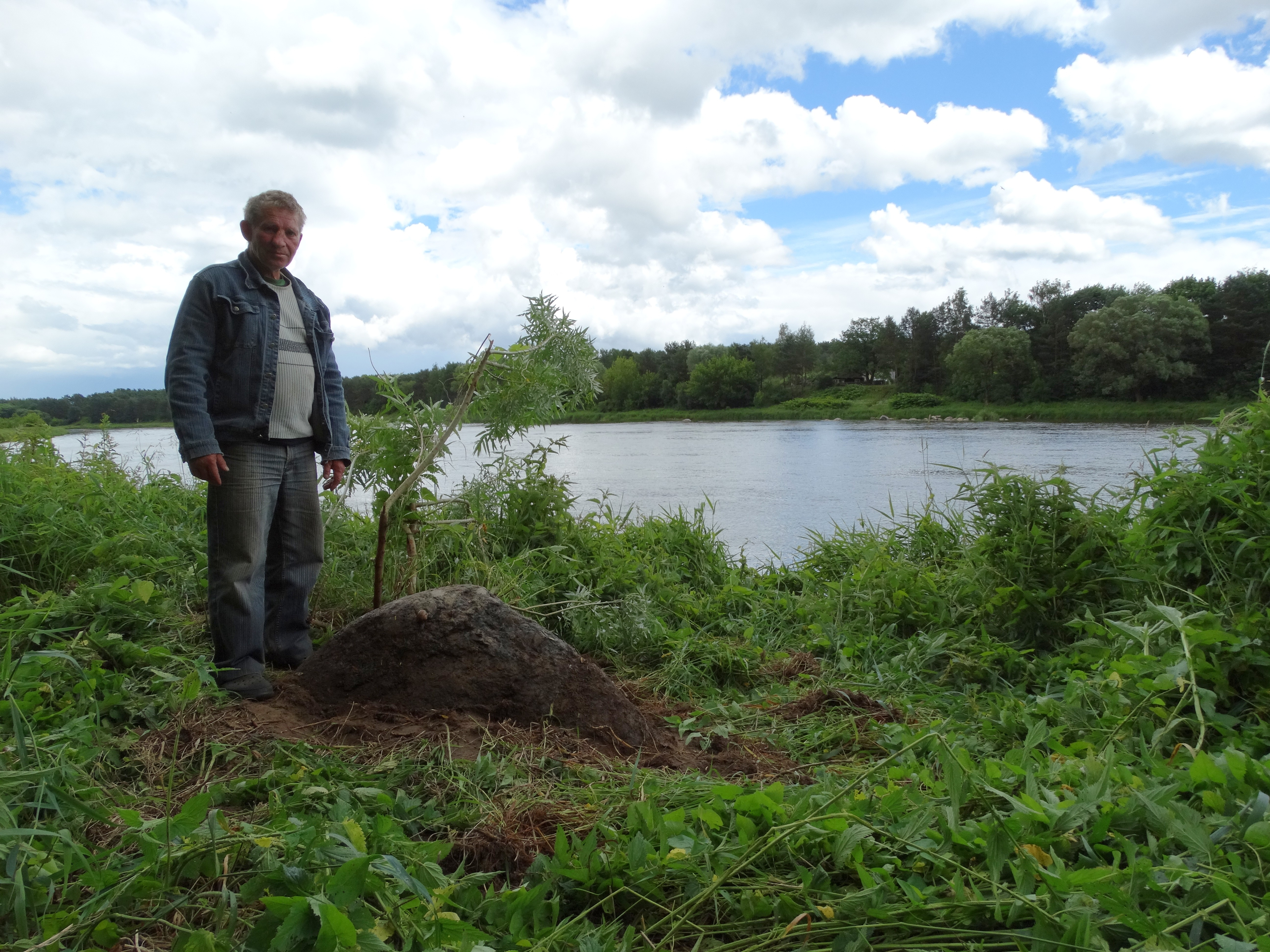 Boulder Valiūnas by Neris river, Batėgala, Jonava district, Lithuania